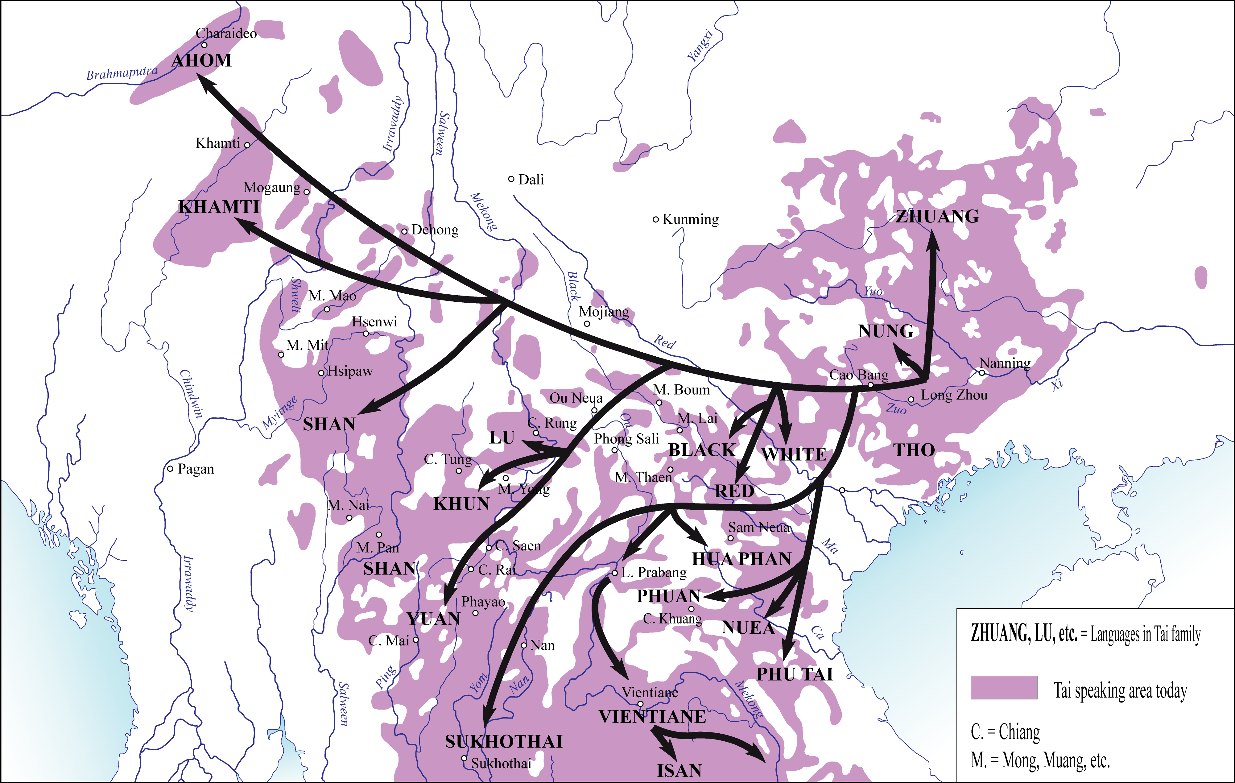 Map showing linguistic family tree (classified by James R. Chamberlain [1]) overlaid on a geographic distribution map of Tai-Kadai family. This map only shows general pattern of the migration of Tai-speaking tribes, not specific routes, which would have snaked along the rivers and over the lower passes. Its vector version can be found here [2]